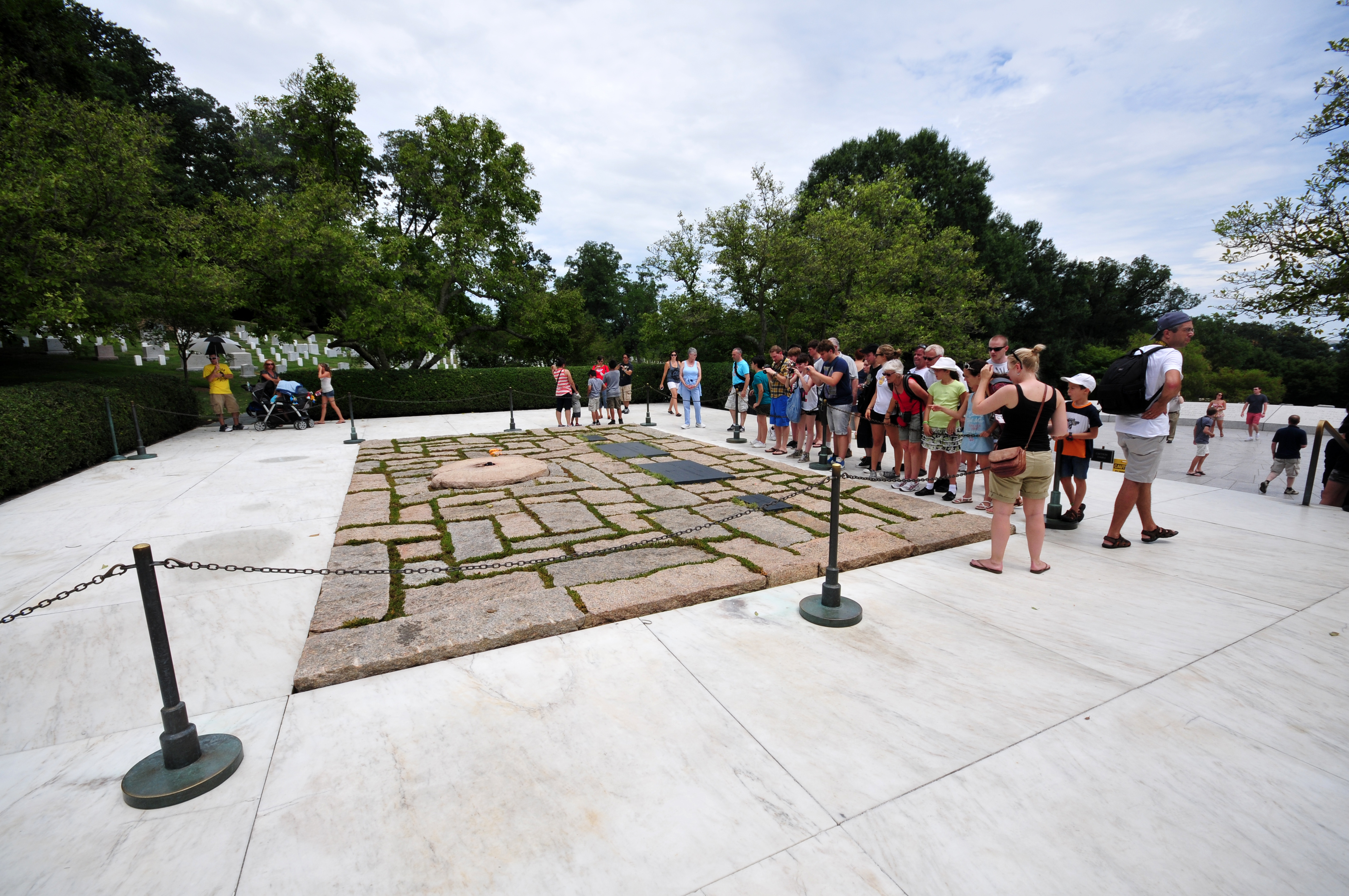 grave of John F. Kennedy in national cementery Arlington, VA